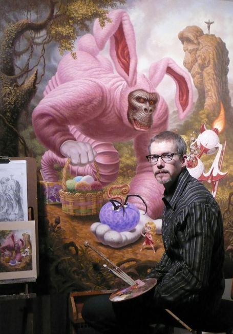 Todd Schorr, Self Portrait